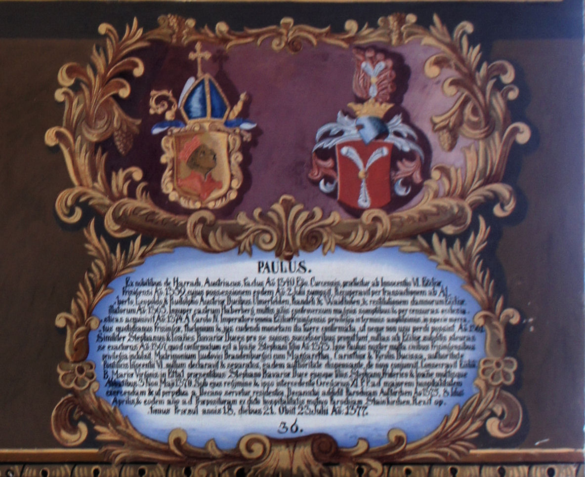 Wappentafel von Paul von Jägerndorf, Fürstbischof von Freising, im Fürstengang zwischen Fürstbischöflicher Residenz und Freisinger Dom. Links das geistliche, rechts das persönliche Wappen, darunter ein lateinischer Text mit kurzer Biographie.